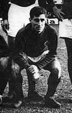 Lefter Küçükandonyadis. Cut from Dosya:Fiorentina-1951-52.jpg.